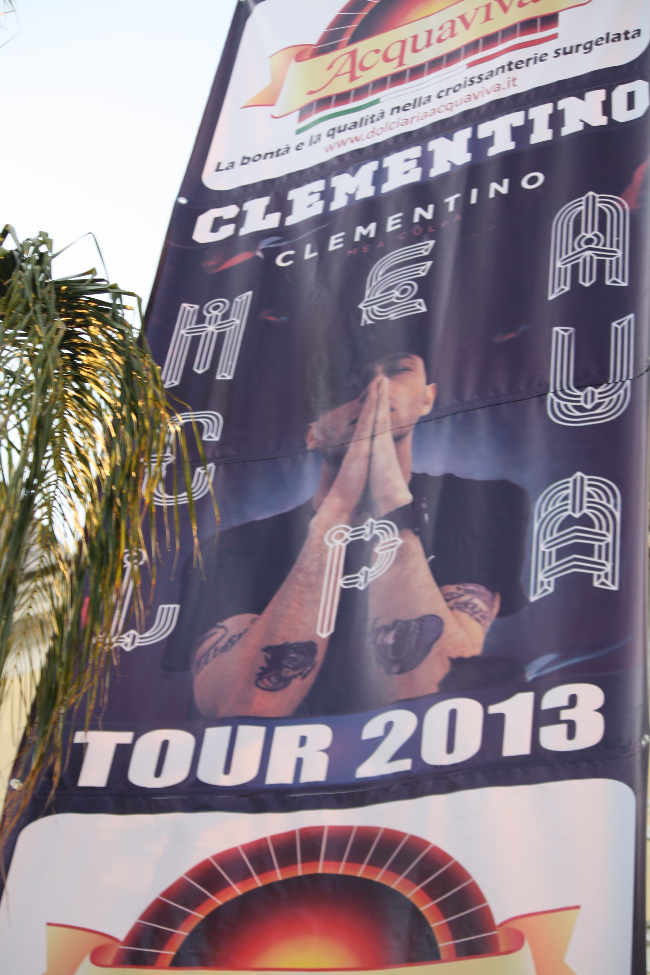 Poster advertising Clementino's promotional tour Mea culpa Summer Tour.